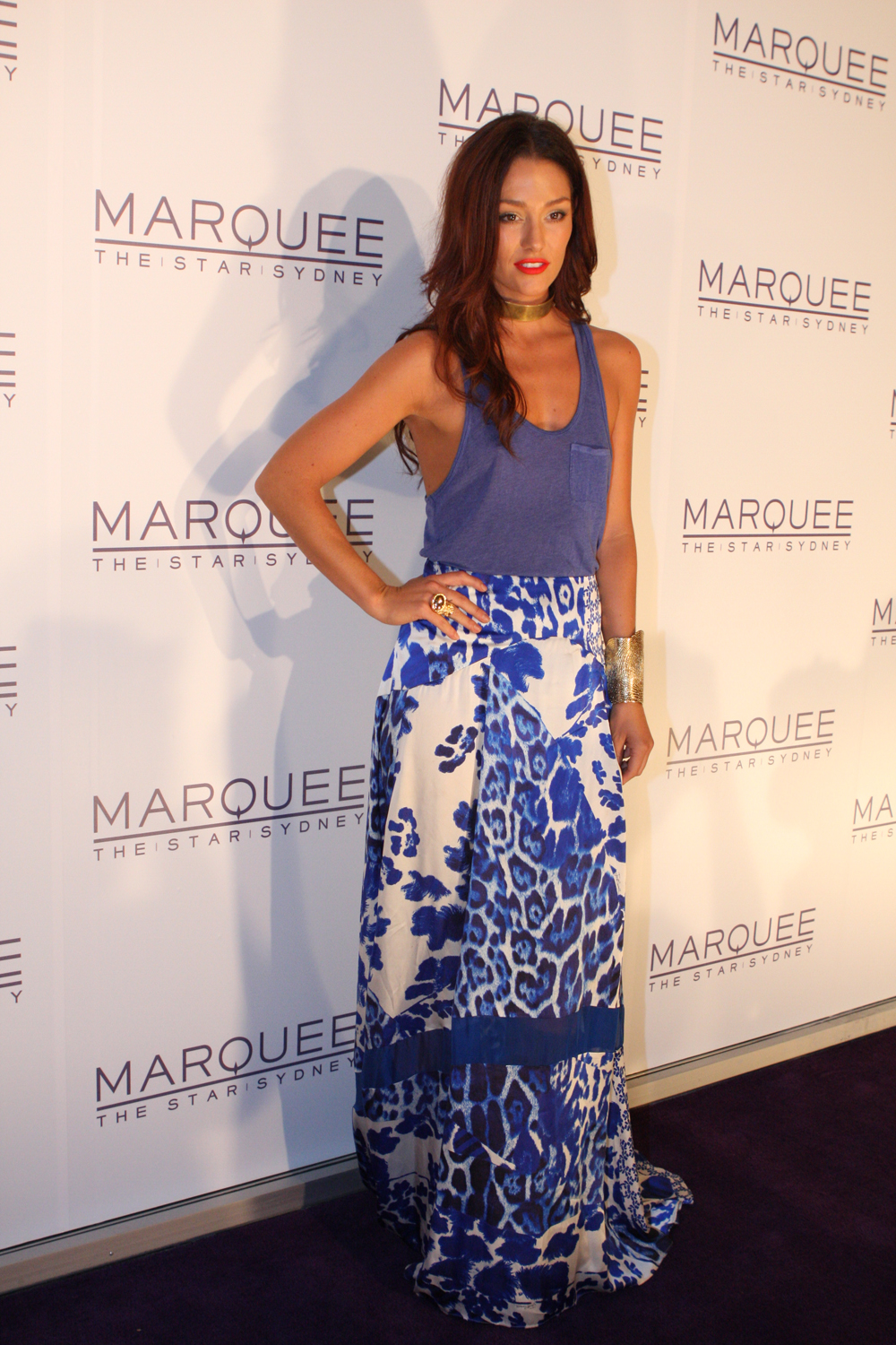 Australian model Erin McNaught at the opening of the Marquee The Star, Sydney, Australia